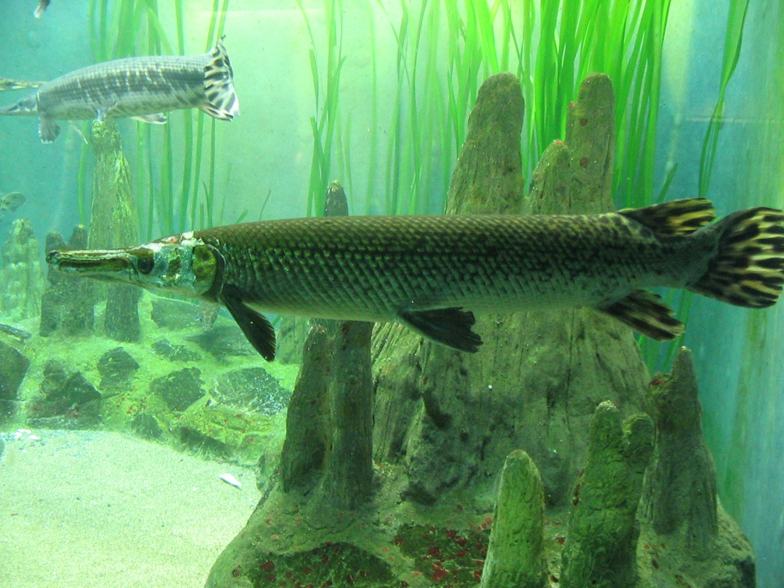 Gar at the Shedd Aquarium, Chicago.